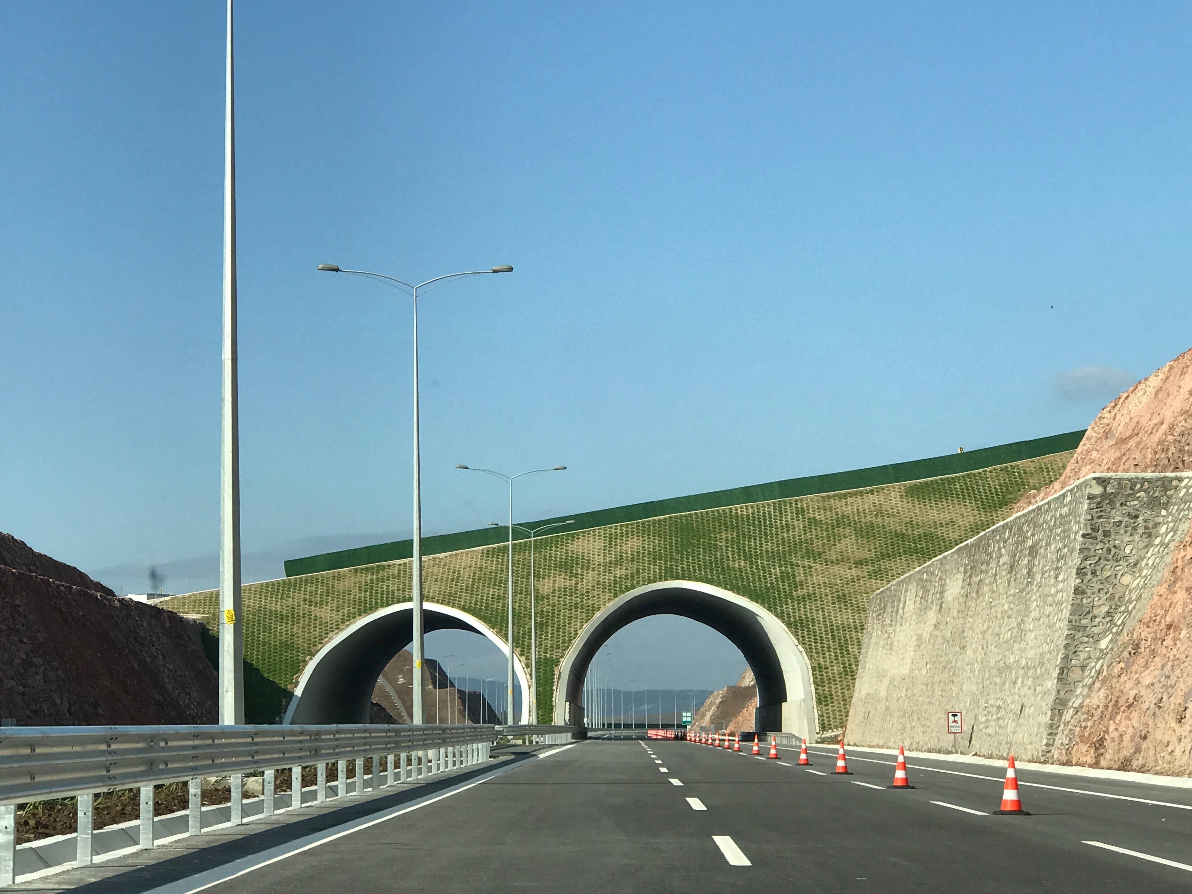 Steel bridge which carries the ancient road to Neonteichos crossing Otoyol 33 near Yanıkköy neighbourhood of Menemen in İzmir, Turkey.